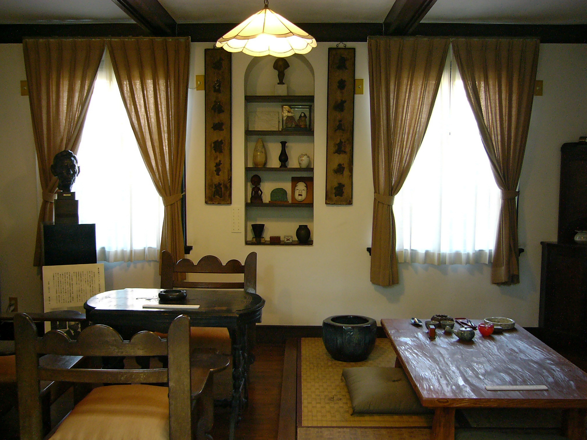 Sato Haruo Memorial Museum, Shingu, Wakayama prefecture, Japan